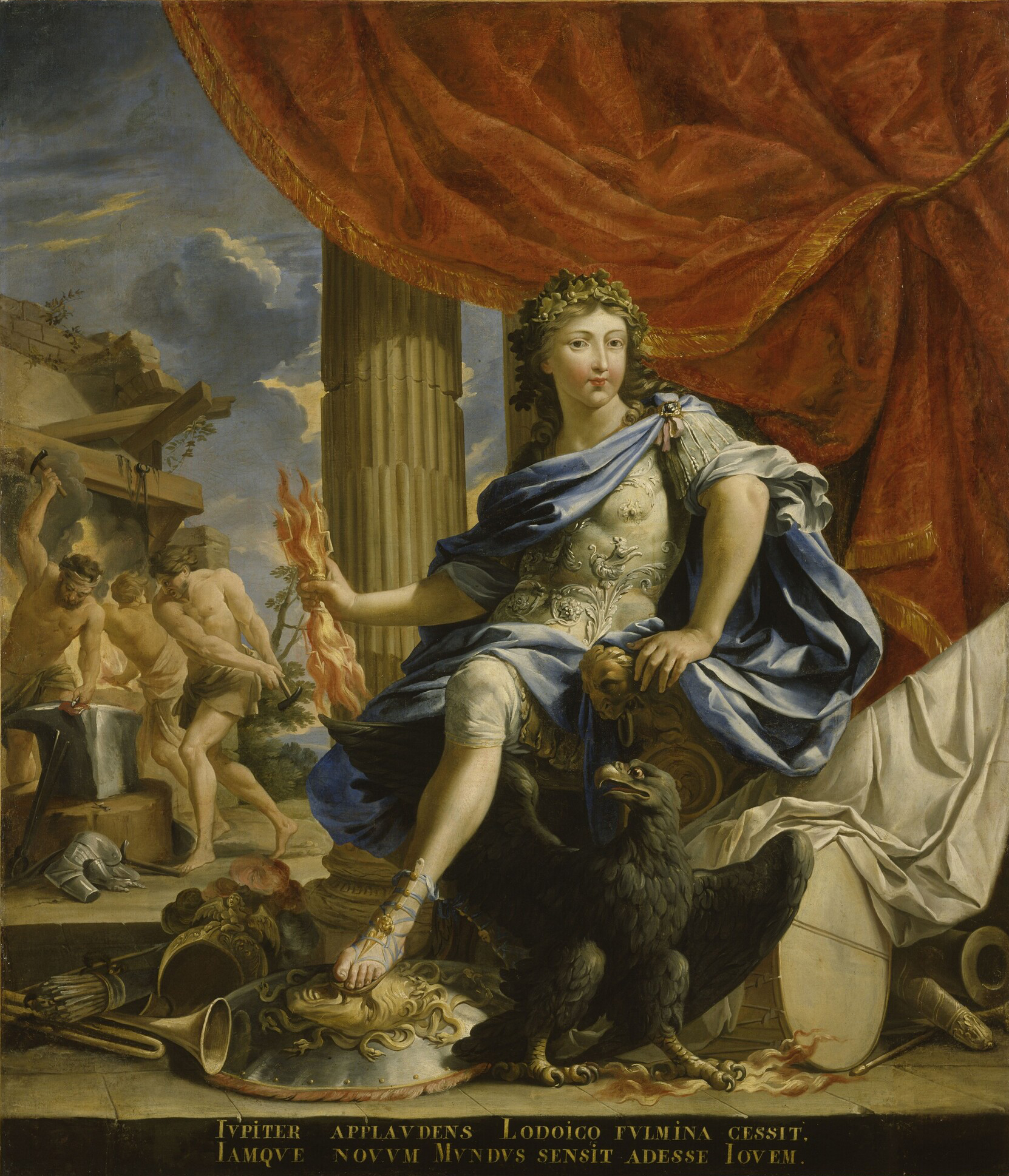 Portrait of Louis XIV (1638-1715) as Jupiter Conquering the Fronde.